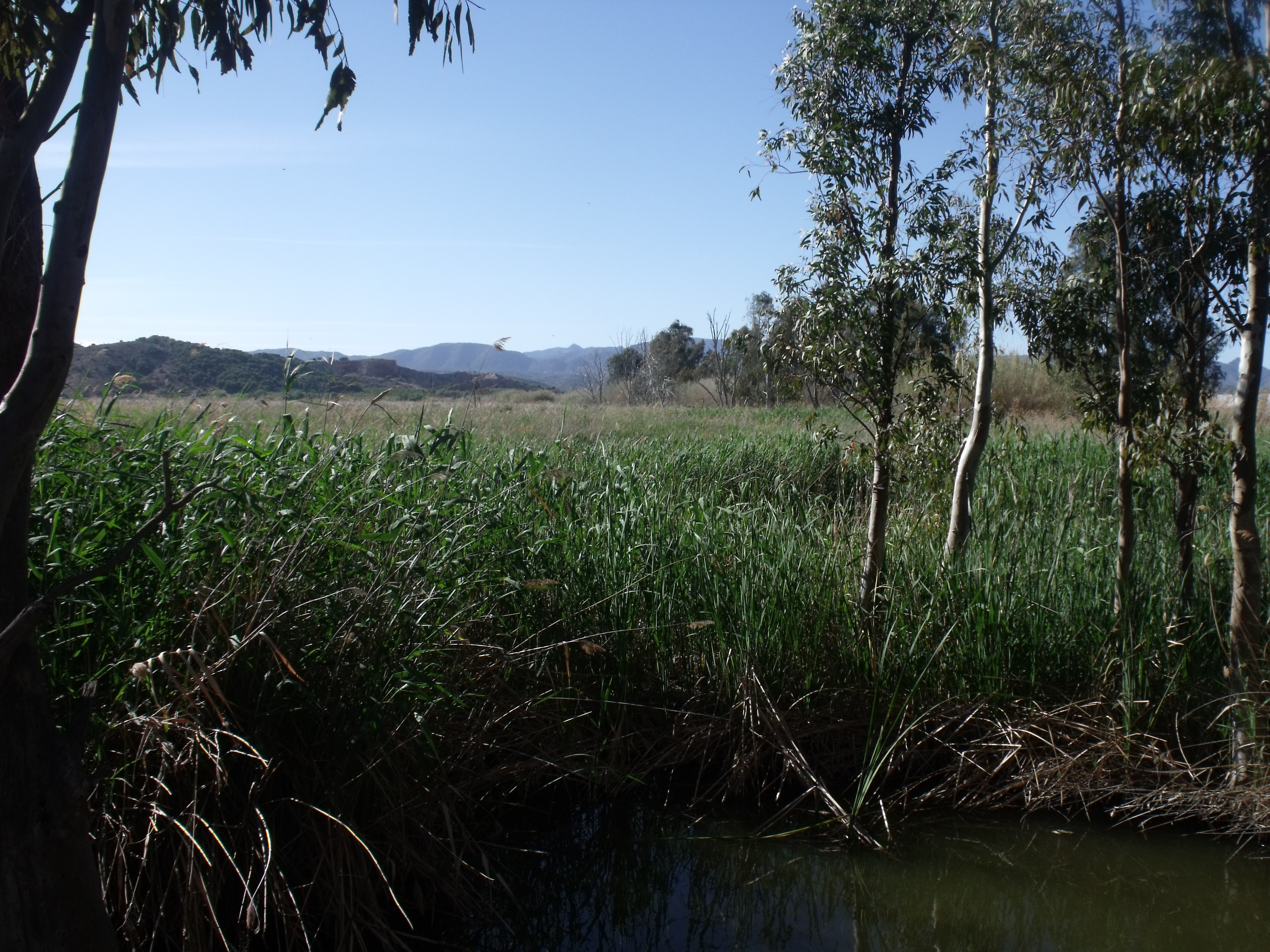 Marjal de Almenara wetlands.